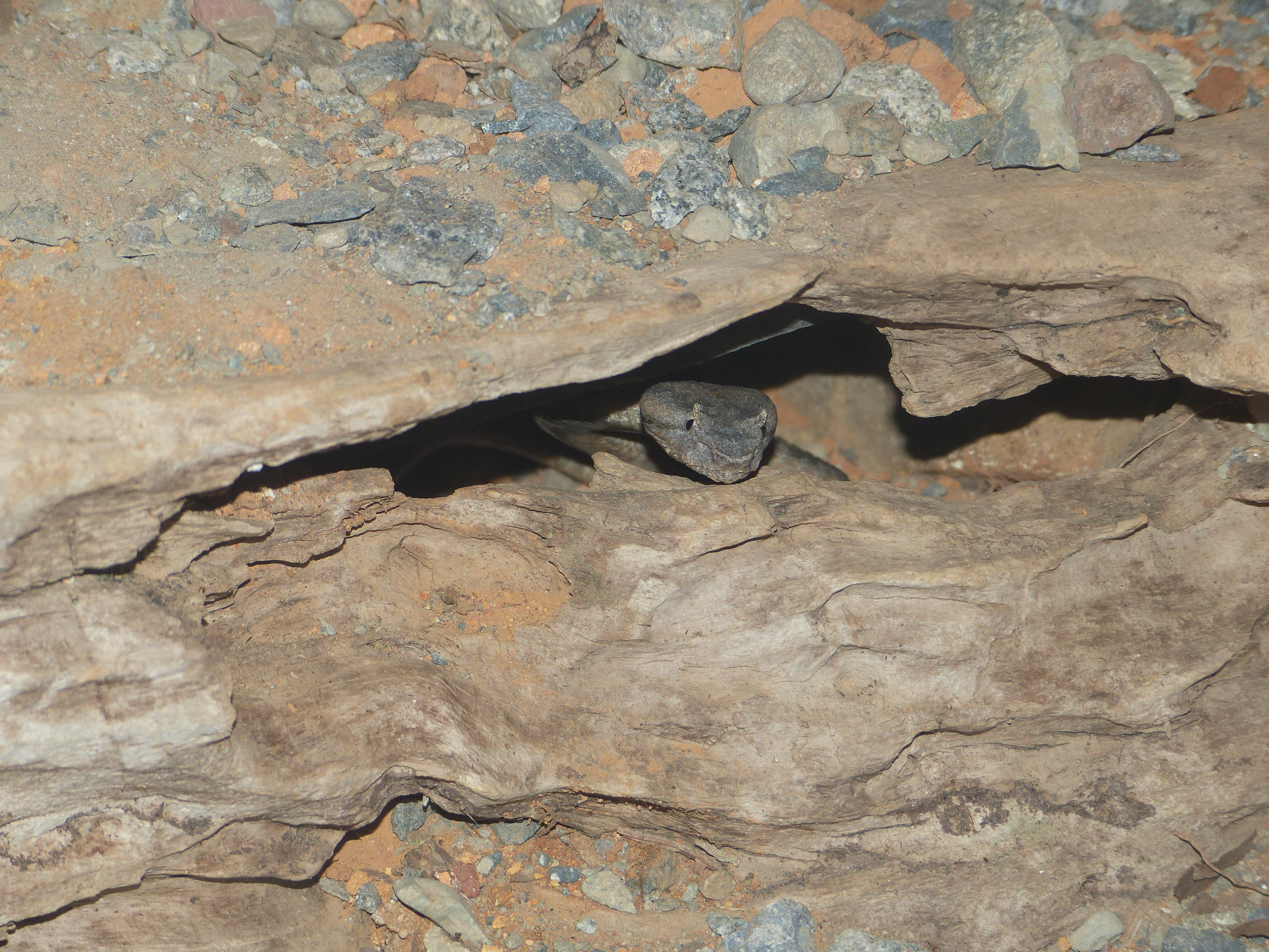 Mixcoatlus melanurus in captivity